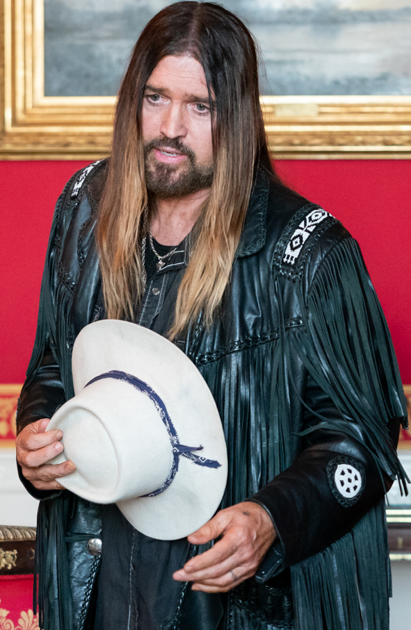 Musician Billy Ray Cyrus, joined by David and Joshua Smith, speaks to First Lady Melania Trump about cyber bullying and the death of 16 year-old Channing Smith Monday, Nov. 18, 2019, in the Red Room of the White House. Channing died by suicide in September after a cyber bullying incident. (Official White House Photo by Andrea Hanks)